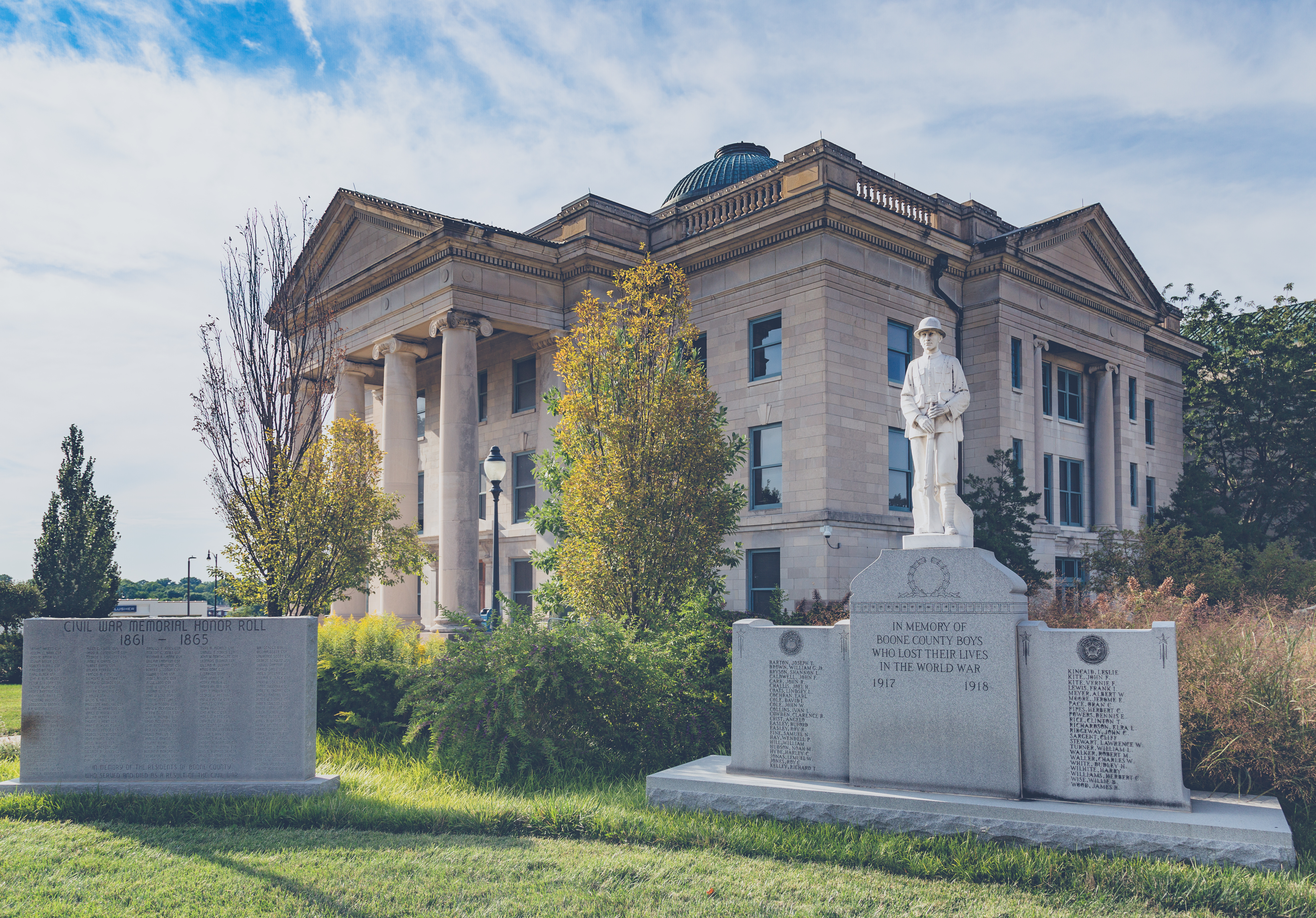 The Boone County Courthouse at 705 East Walnut Street in Columbia, Missouri